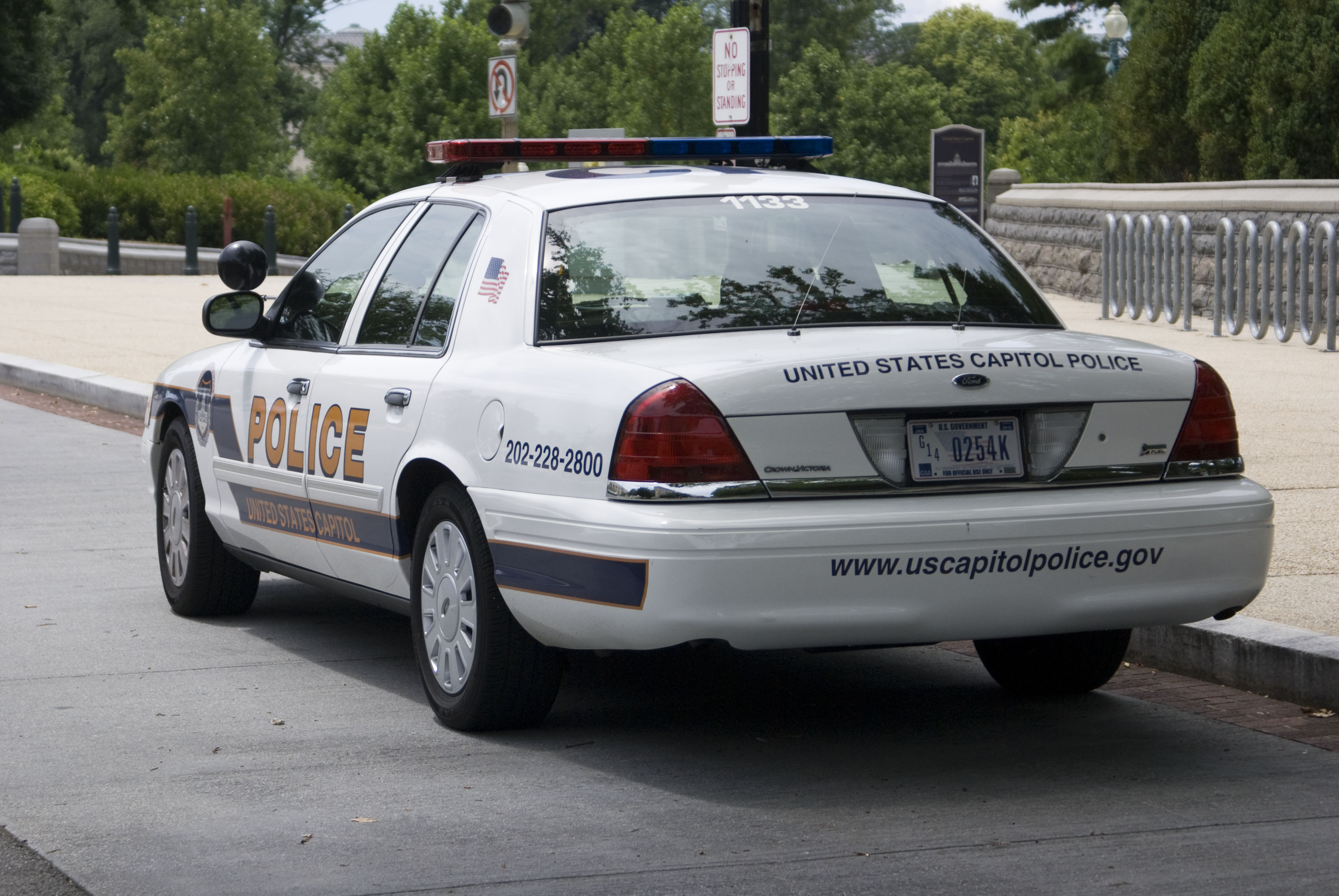 Ford Crown Victoria of the United States Capitol Police on Capitol Hill in Washington, D.C.